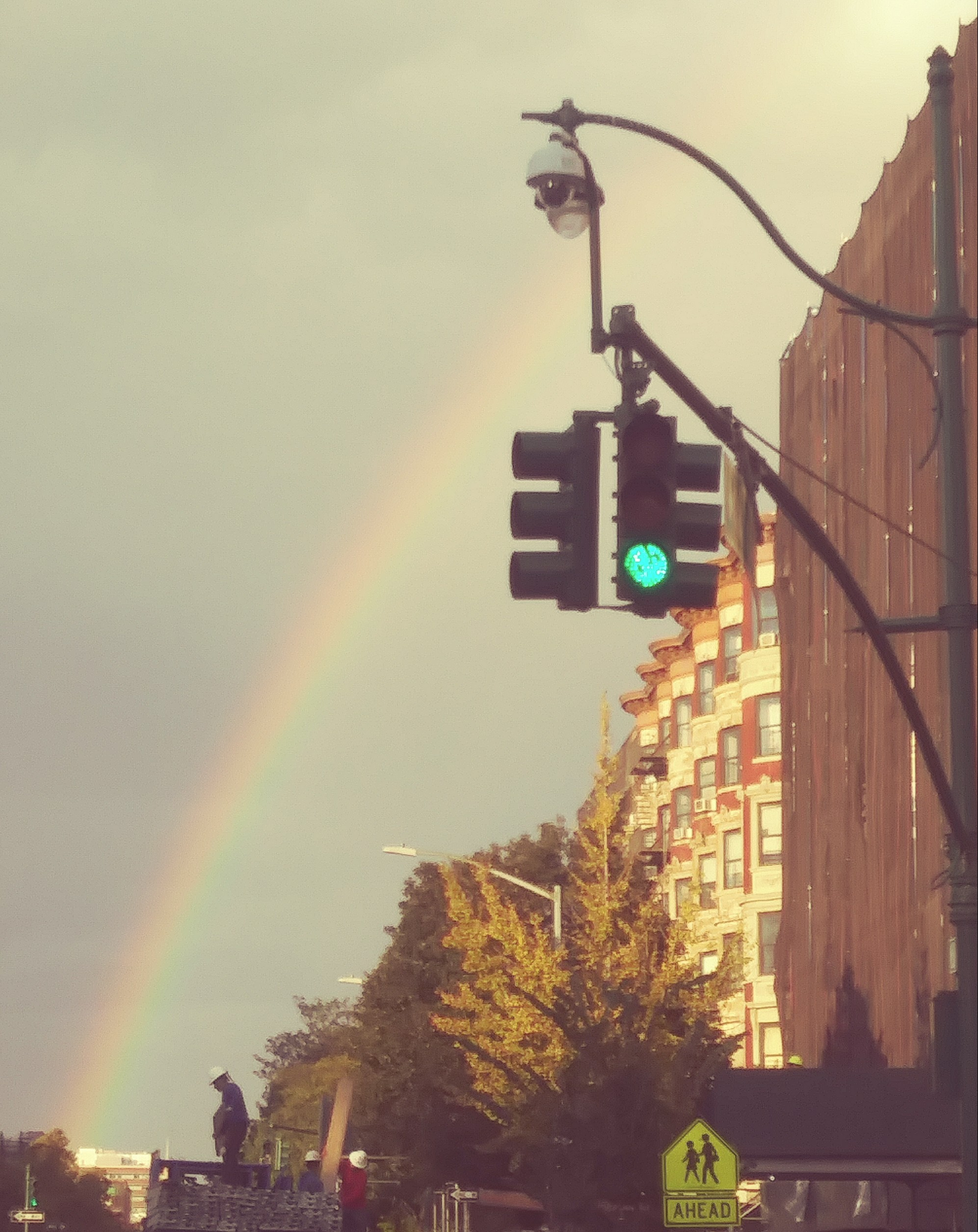 Green light and rainbow over Malcolm X Boulevard in Manhattan, view looking north from Central Park North 5:04 PM October 23 2018